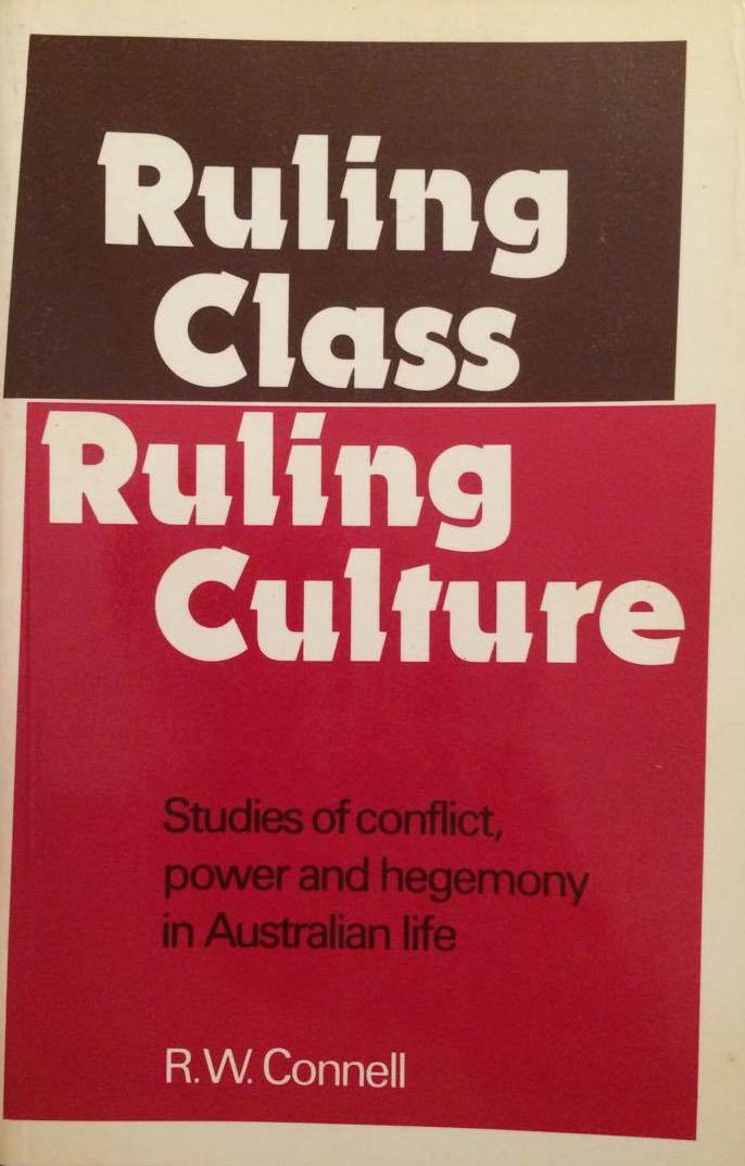 Book by Raewyn Connell, 1977